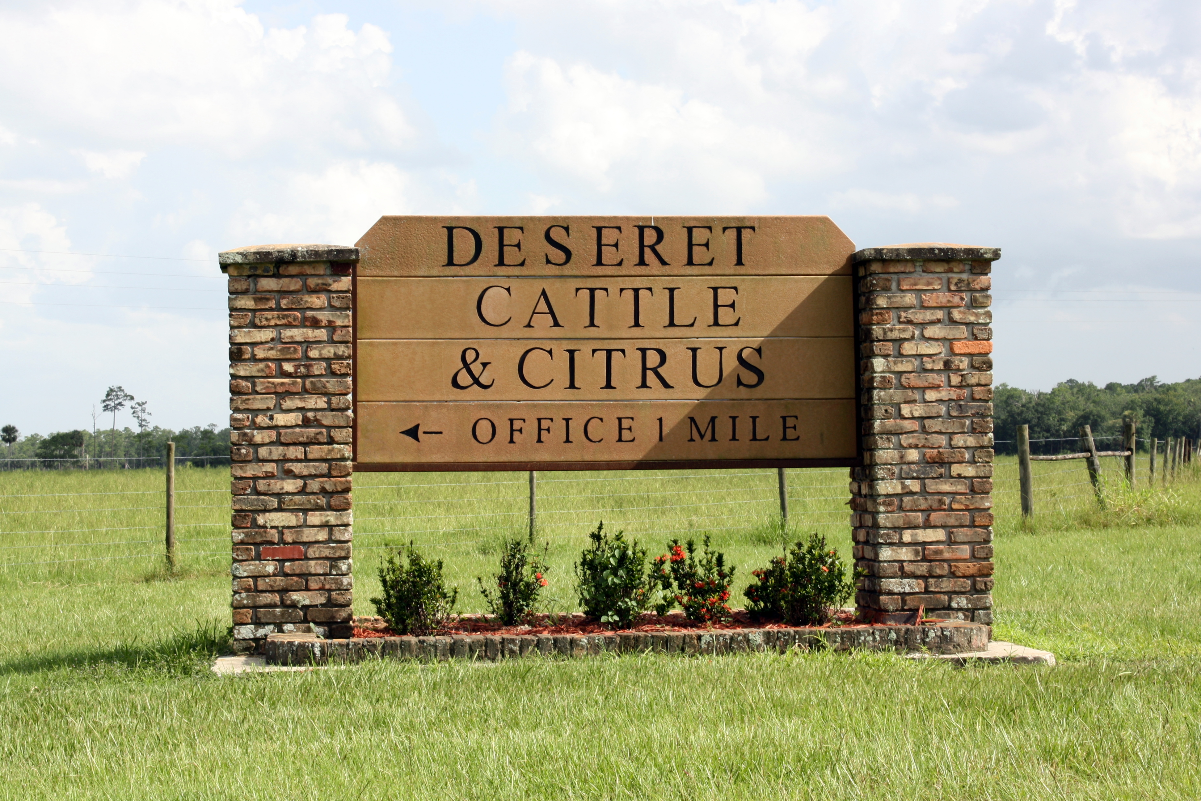 This is a photo of a sign indicating the location of the Deseret Citrus and Cattle Ranches in Florida.